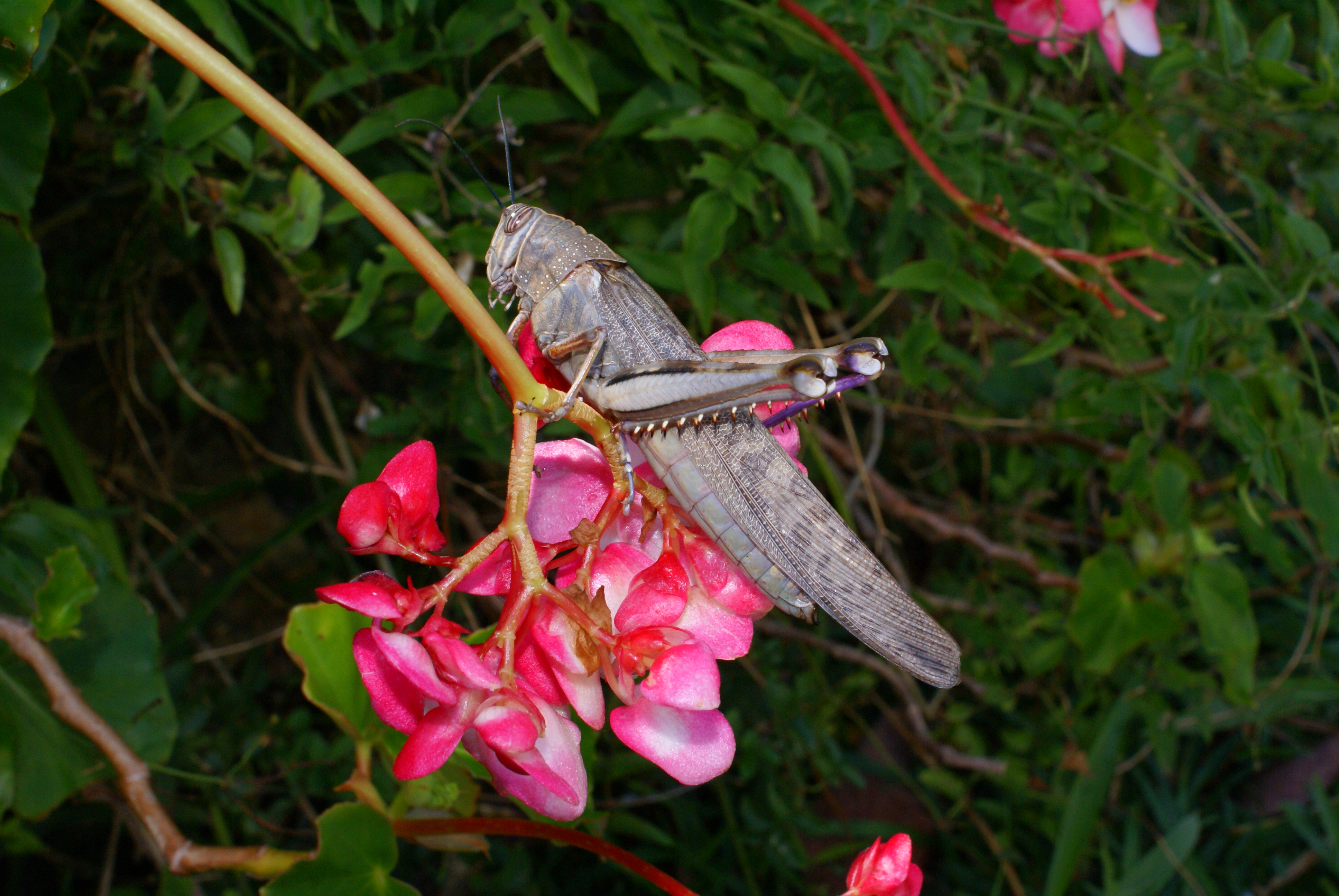 tree locust (Anacridium melanorhodon ssp. arabafrum) on Begonia sp. flowers, on Réunion island